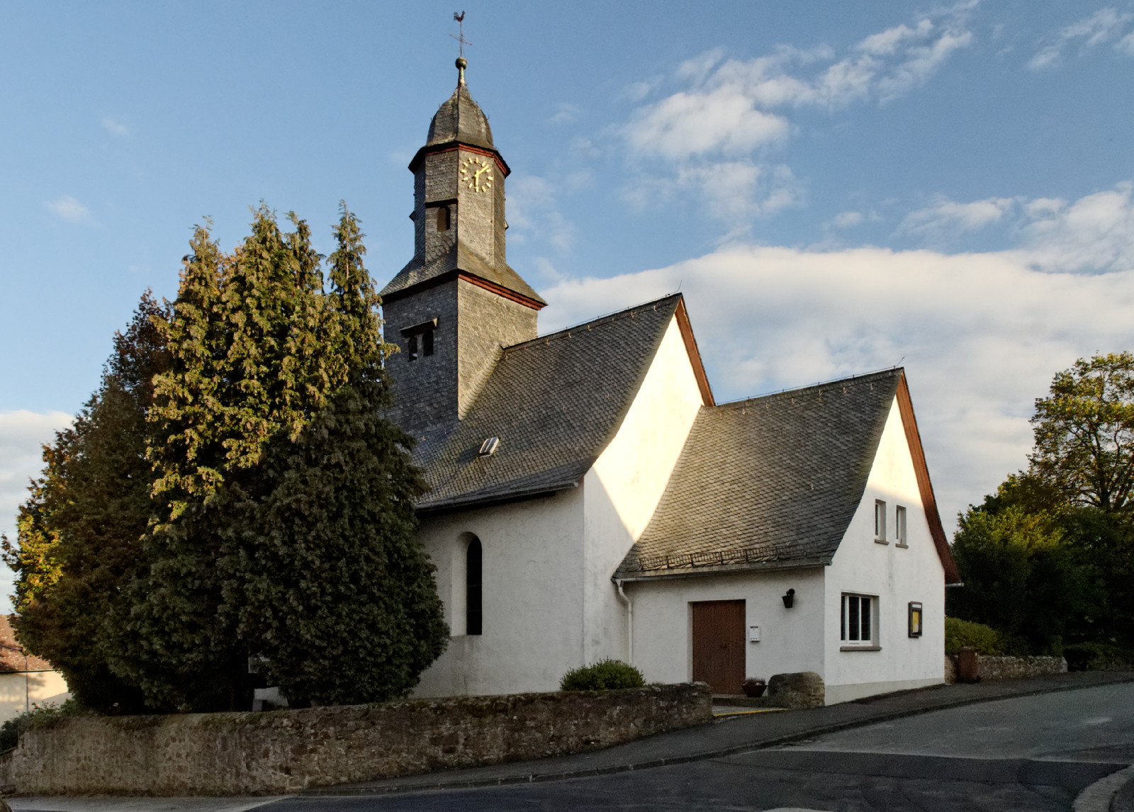 Evangelische Kirche, Dorfstraße in Hüttenberg-Rechtenbach, Germany